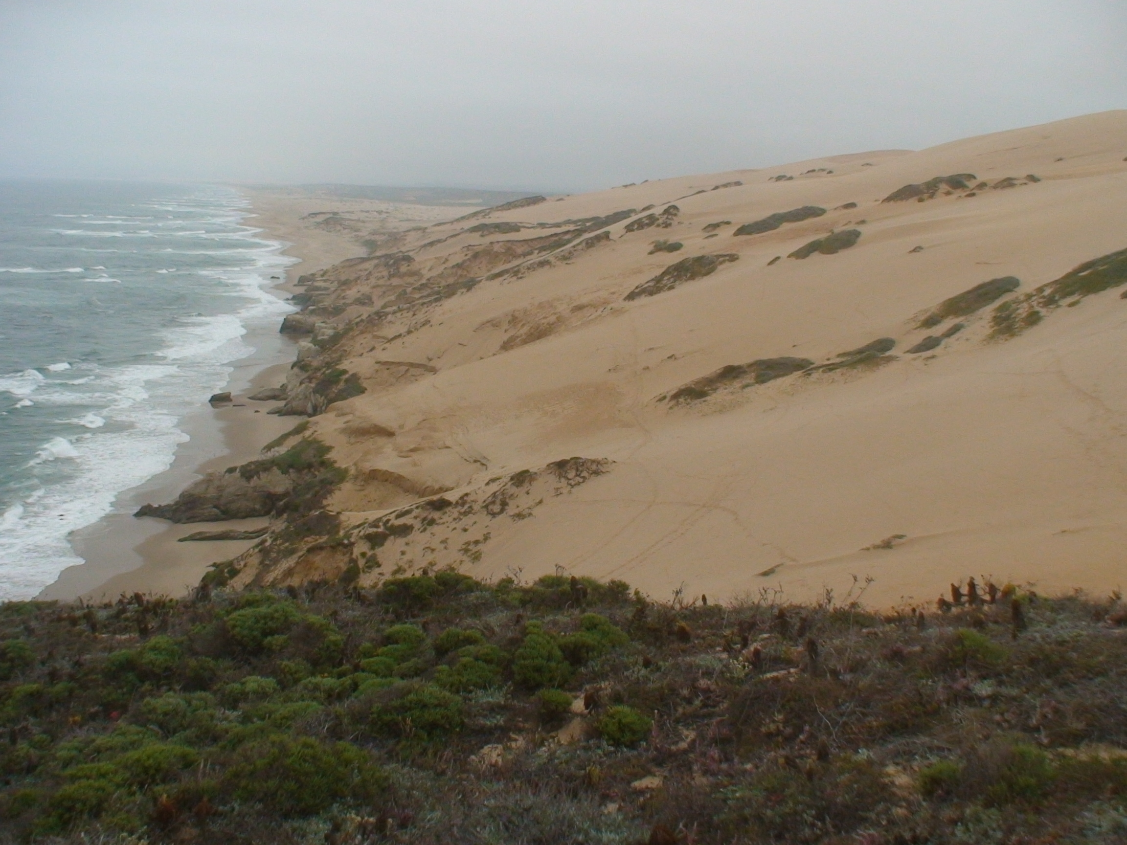 California coastline — A view of the Guadalupe-Nipomo Dunes complex, from its southern tip at Mussel Rock. Beyond Mussel Rock is Rancho Guadalupe Dunes Park (the closest flat beach), the Santa Maria River, then the Guadalupe-Nipomo National Wildlife Refuge. Oceano Dunes and Pismo Beach lie beyond. Coastal sage scrub habitat on Mussel Rock in foreground and on dunes, of the Coastal sage and chaparral sub-ecoregion.